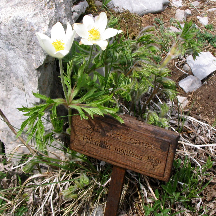 Pulsatilla montana (Zavižan, Velebit, Croatia)